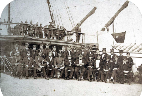 Officers and crew, HMS Indus, Halifax, Nova Scotia, 1860 "To Mr. and Mrs. James Forman from their affectionate son W. King Hall, HMS Indus, Bermuda, March 4, 1860."